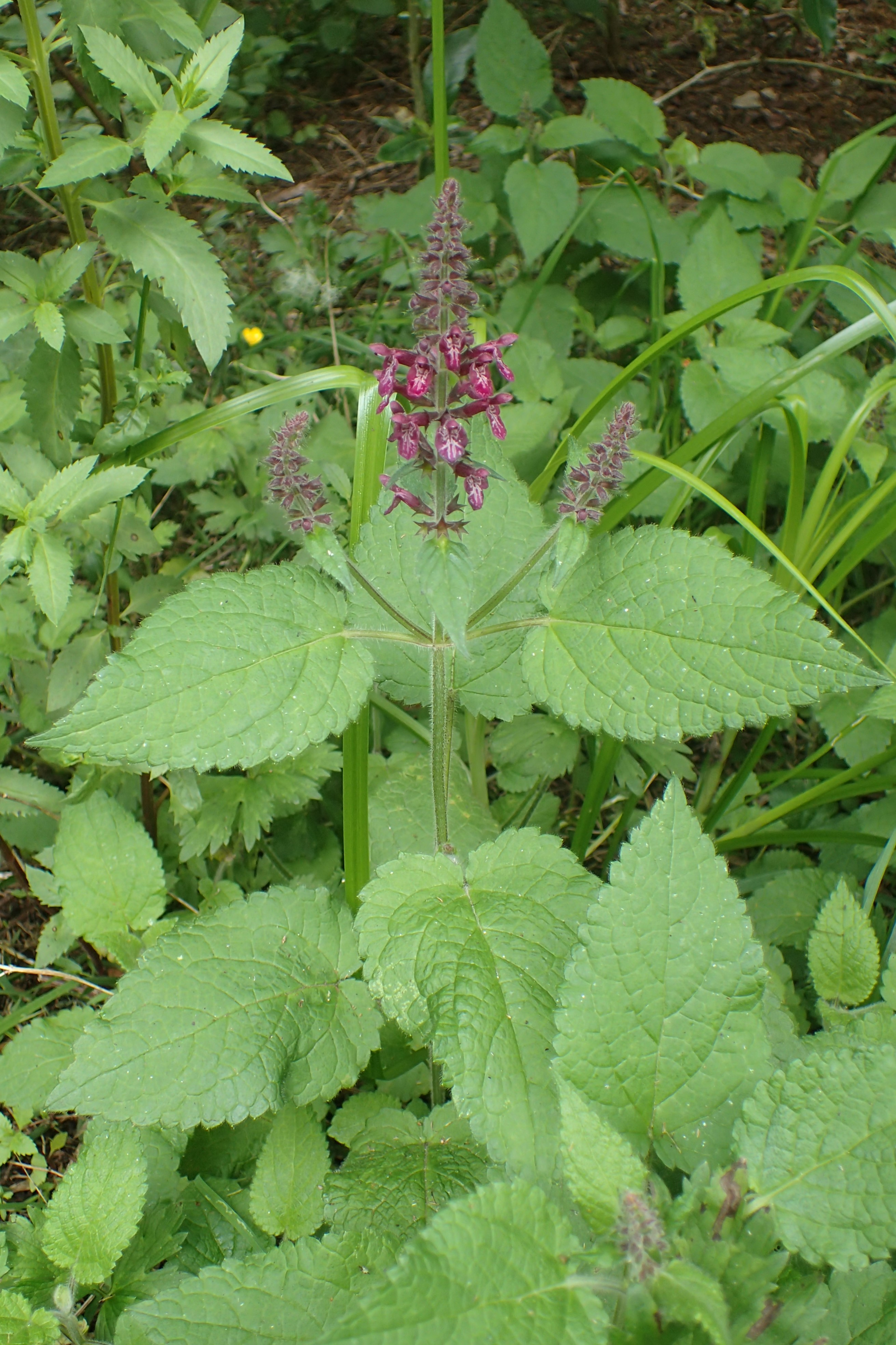 Stachys sylvatica in Auckland Botanical Garden (as a invasive weed) (New Zealand)